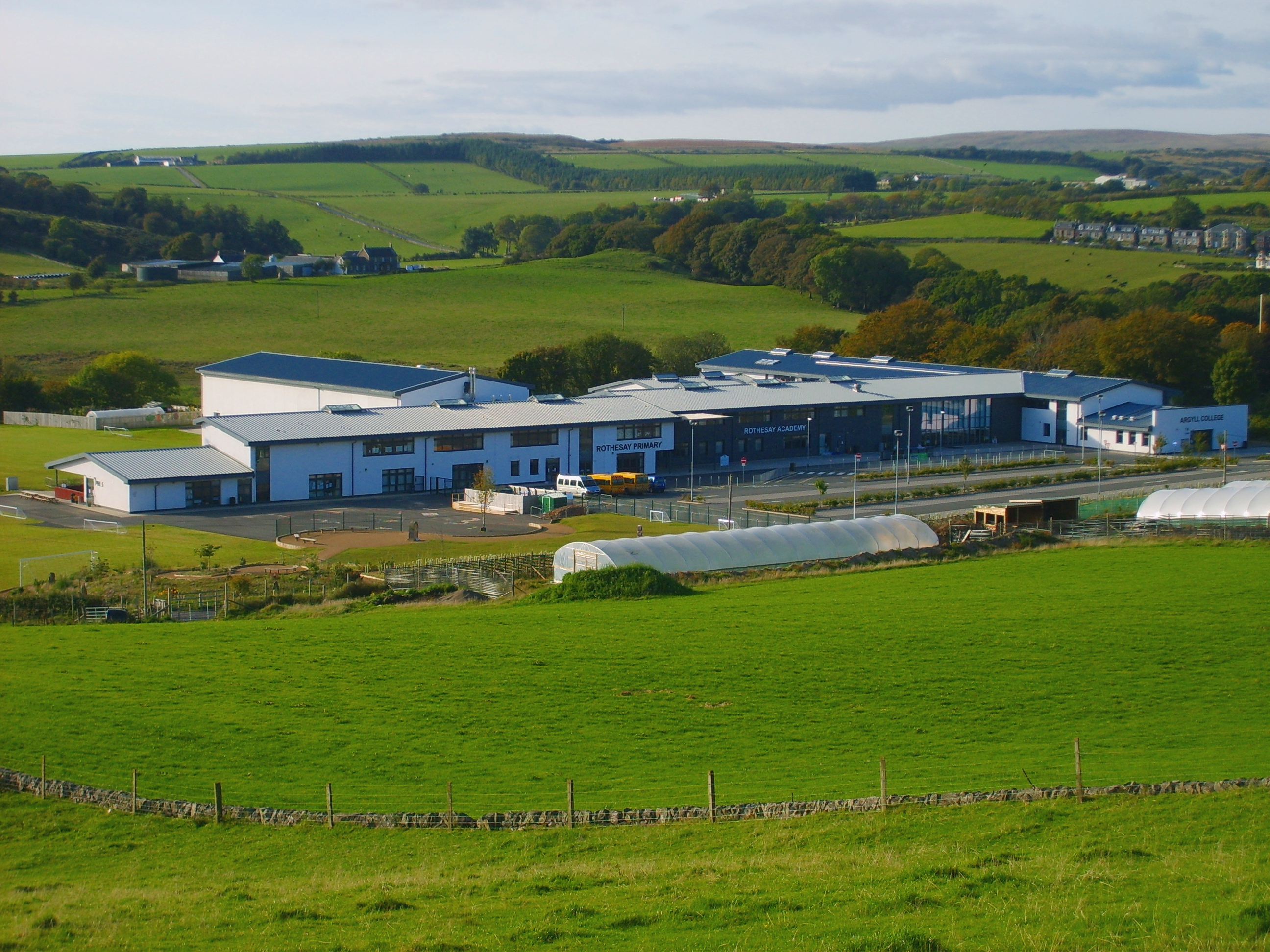 Rothesay Joint Campus, bringing together Rothesay Primary (primary school), Rothesay Academy (secondary school) and Argyll College (Isle of Bute, Scotland).